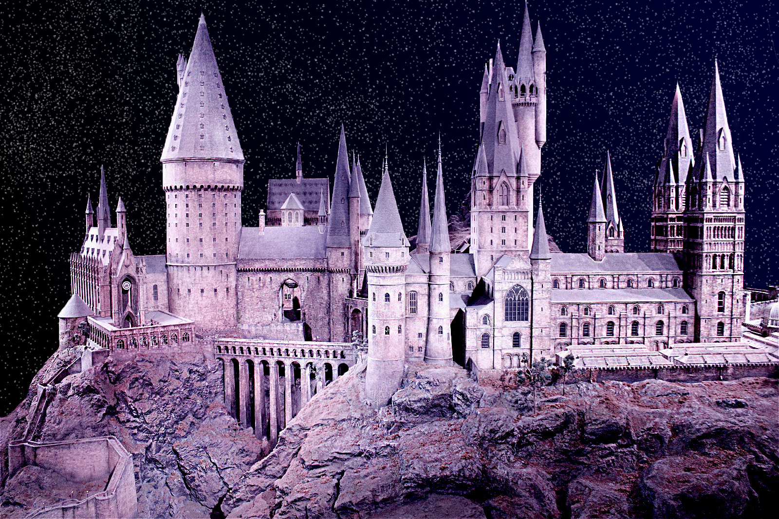 500px provided description: Hogwarts in Harry Potter Studios. Background edited on Photoshop. [#Canon ,#Movie ,#Harry Potter ,#Hogwarts ,#Harry Potter Studios]